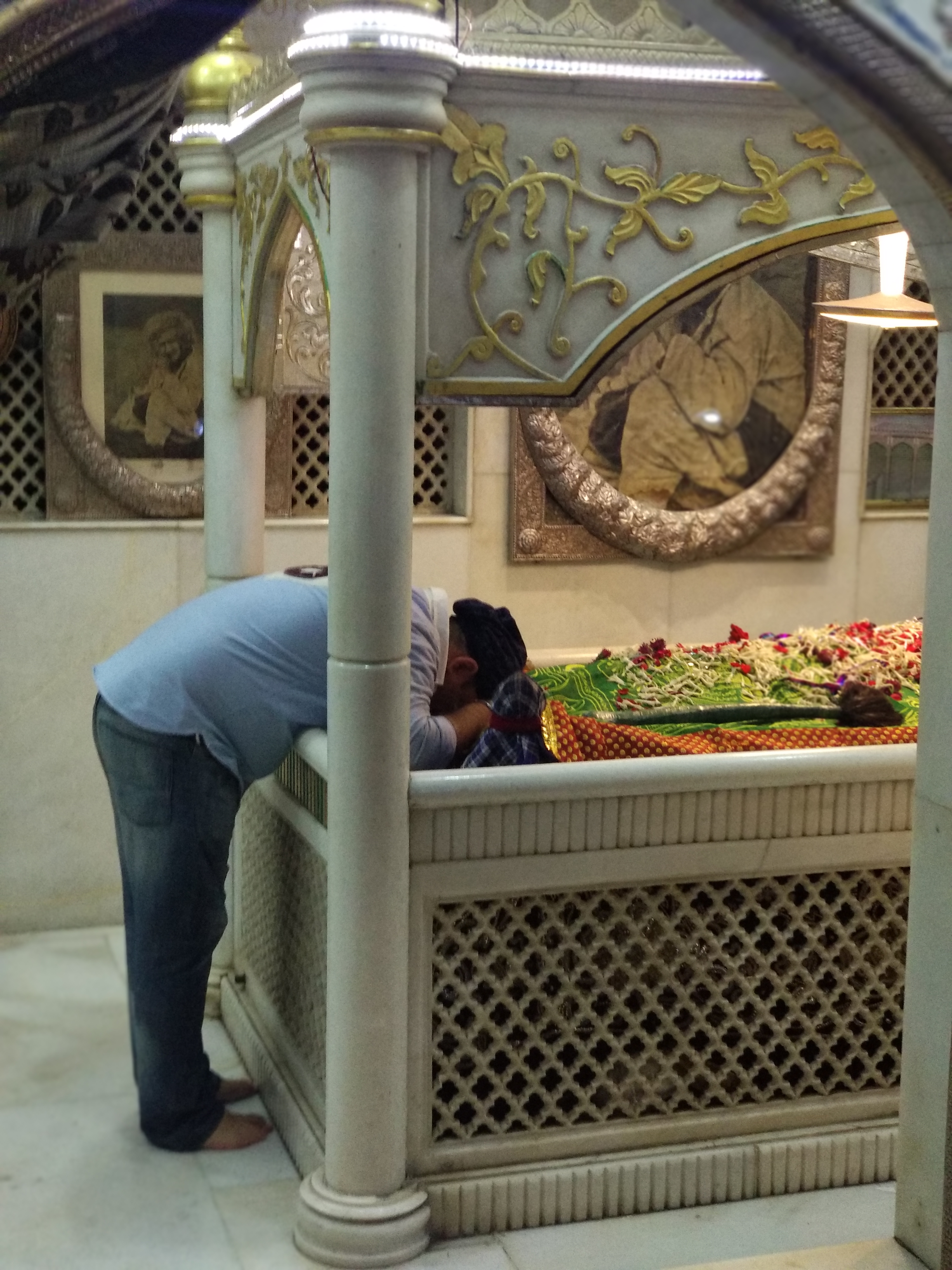 Babajaan Shrine at Camp, Pune